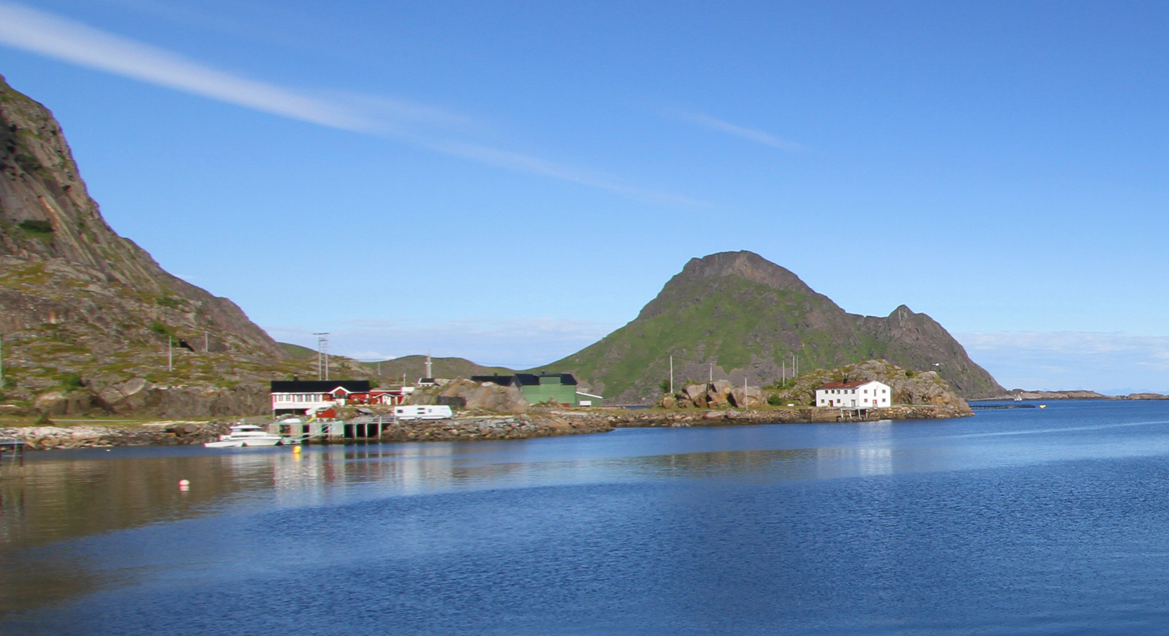 Settlement Mortsund, Vestvågøy, Lofoten, Norwegen